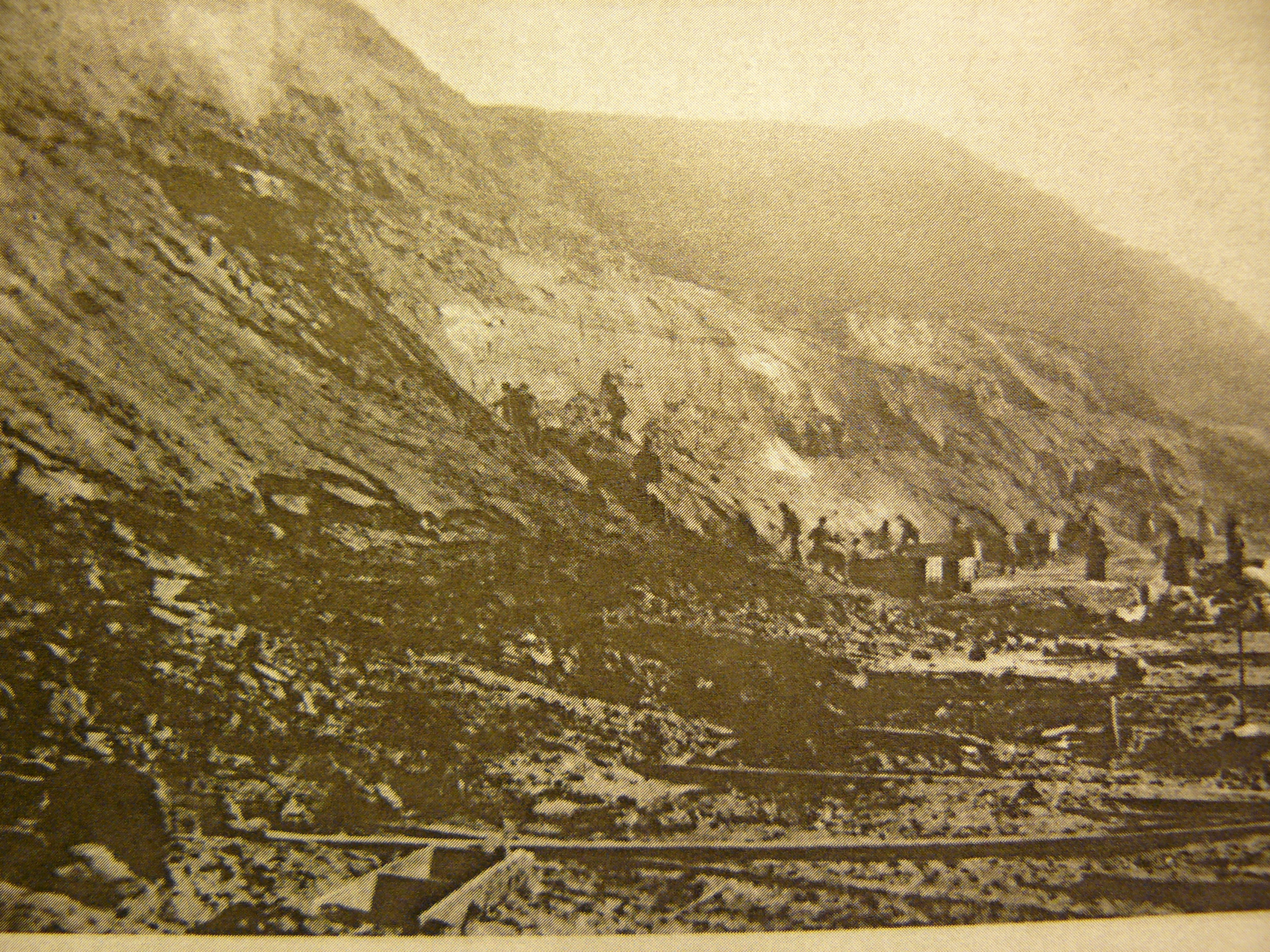 Excavation of amber; cliff coast between Hubnicken and Kraxtepellen, East Prussia, 1870s